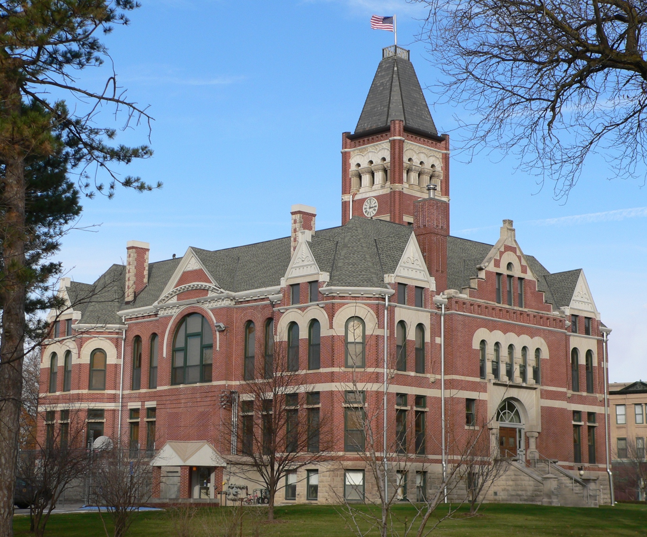 Fillmore County Courthouse in Geneva, Nebraska, viewed from the southeast. The building was constructed in 1892; the architects, George E. McDonald and L.F. Pardue, designed it in Richardsonian Romanesque style. The building is listed in the National Register of Historic Places.